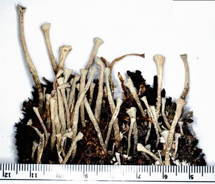 Cladonia deformis (L.) Hoffm., 1796 (photograph of a herbarium specimen) Growing on moss along the shore of Lake Superior in Neys Provincial Park, ca. 15 miles N of Marathon on Route 17, Thunder Bay District, Ontario, Canada; collected and identified by Richard E. Riefner (No. 81-617, 2 Aug 1981); specimen is now in the Lichen Herbarium of the New York Botanical Garden. (millimeter scale)